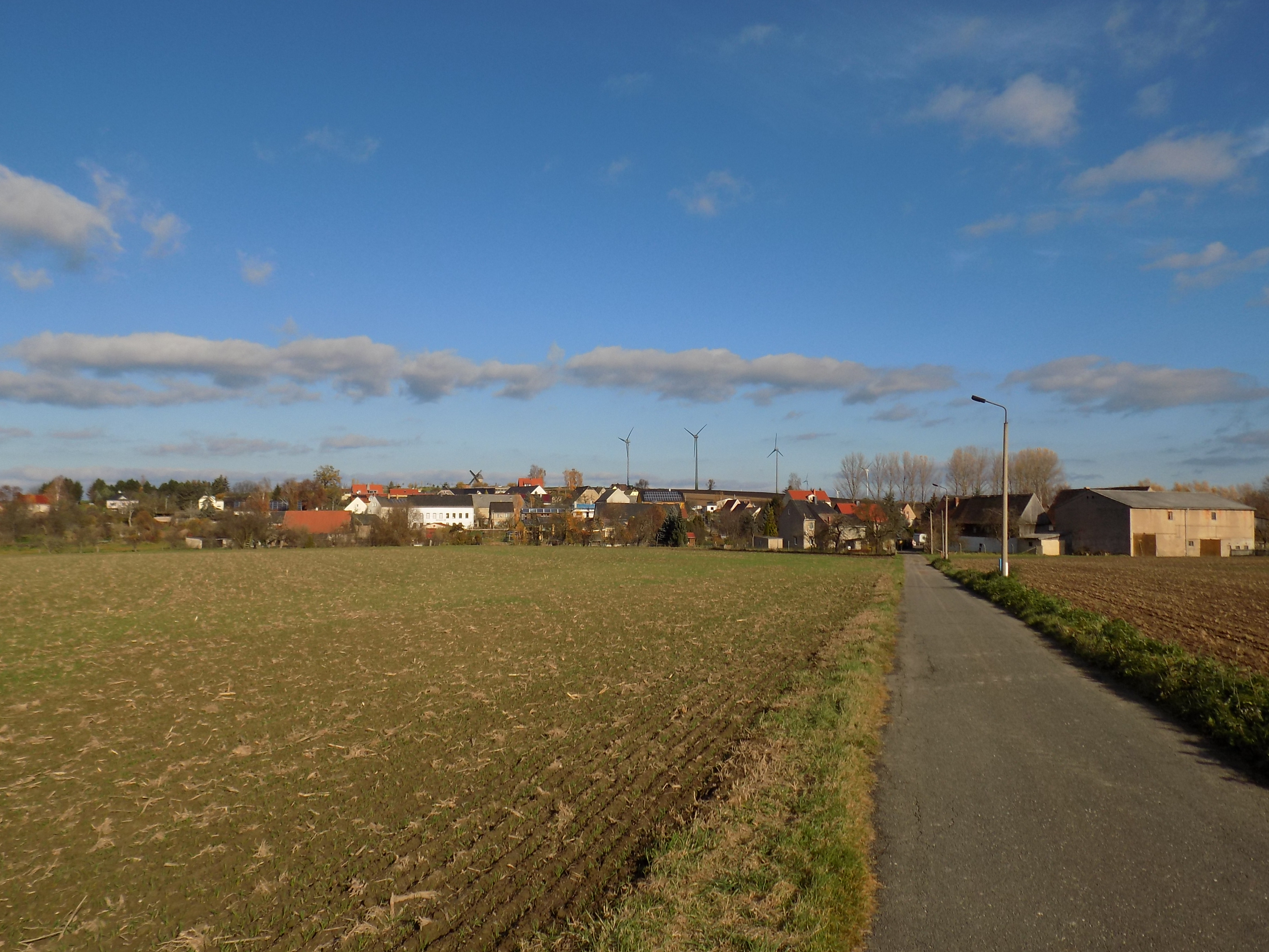 Schkortitz (Grimma Leipzig district, Saxony) from the south-west